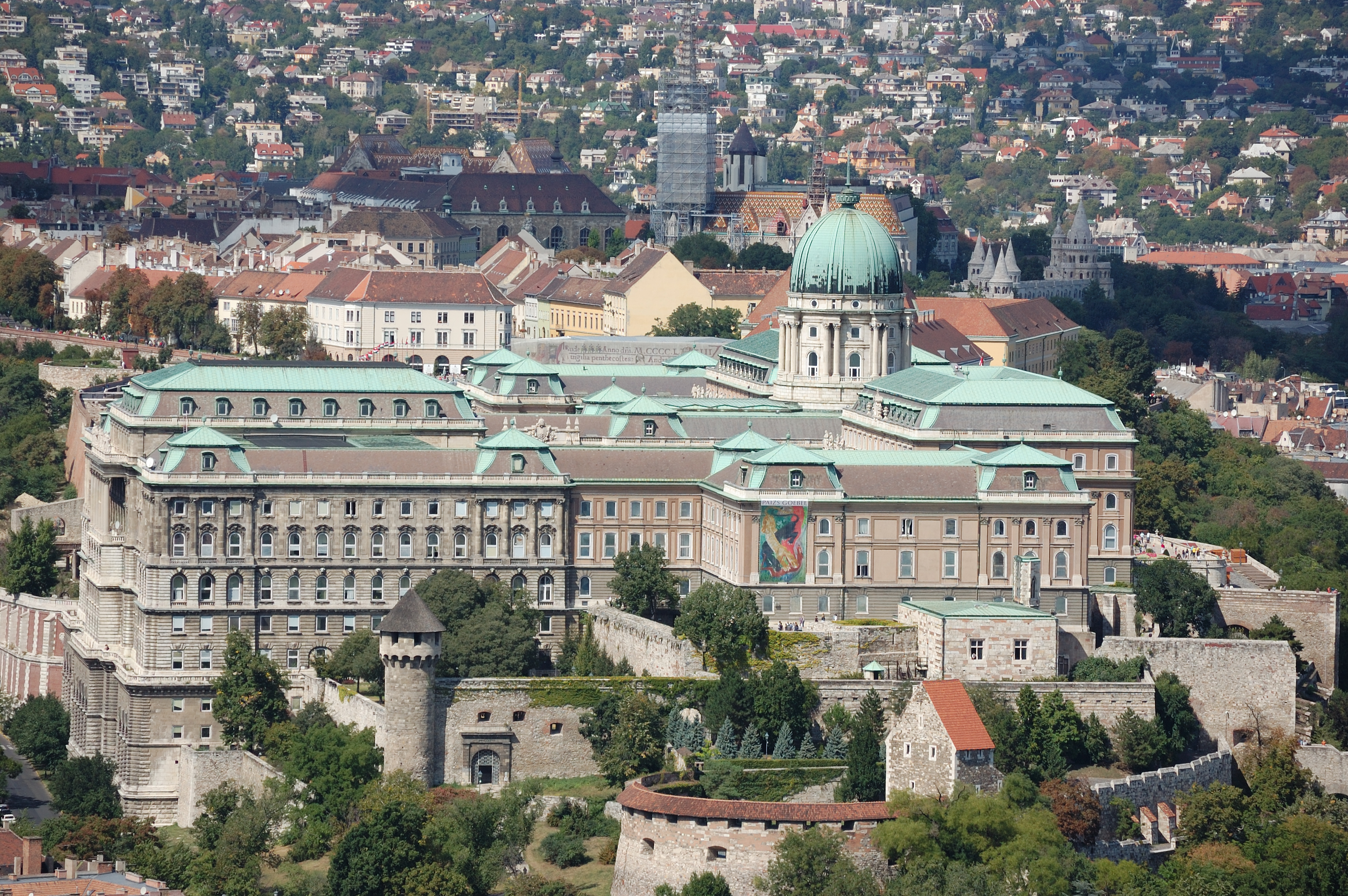 Photograph of Buda Castle Daytime. As seen from Gellért Hill